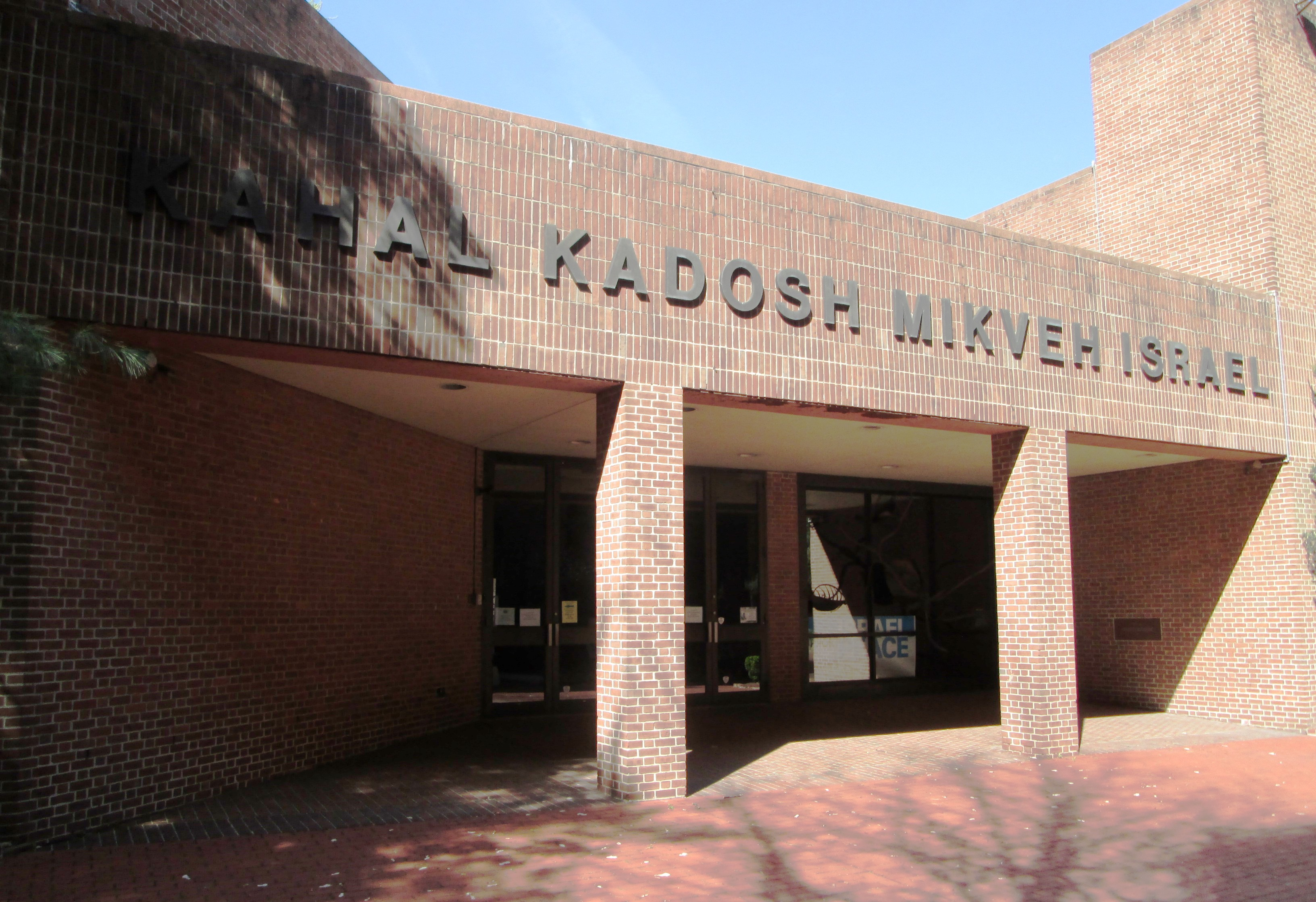 Congregation Mikveh Israel, Mikveh Israel synagogue, officially called Kahal Kadosh Mikveh Israel (Hebrew: קהל קדוש מקוה ישראל, which translates as "Holy Community of the Hope of Israel) is a synagogue located at 44 N. 4th Street between Arch and Market Streets in the Old City neighborhood of Philadelphia, which was founded in the 1740s, and is known as the "Synagogue of the American Revolution". It is one of the oldest synagogues in the United States. Currently home to a Sephardic community originally established by Spanish and Portuguese Jews, the congregation continues to practice according to the Spanish and Portuguese Sephardic rite.